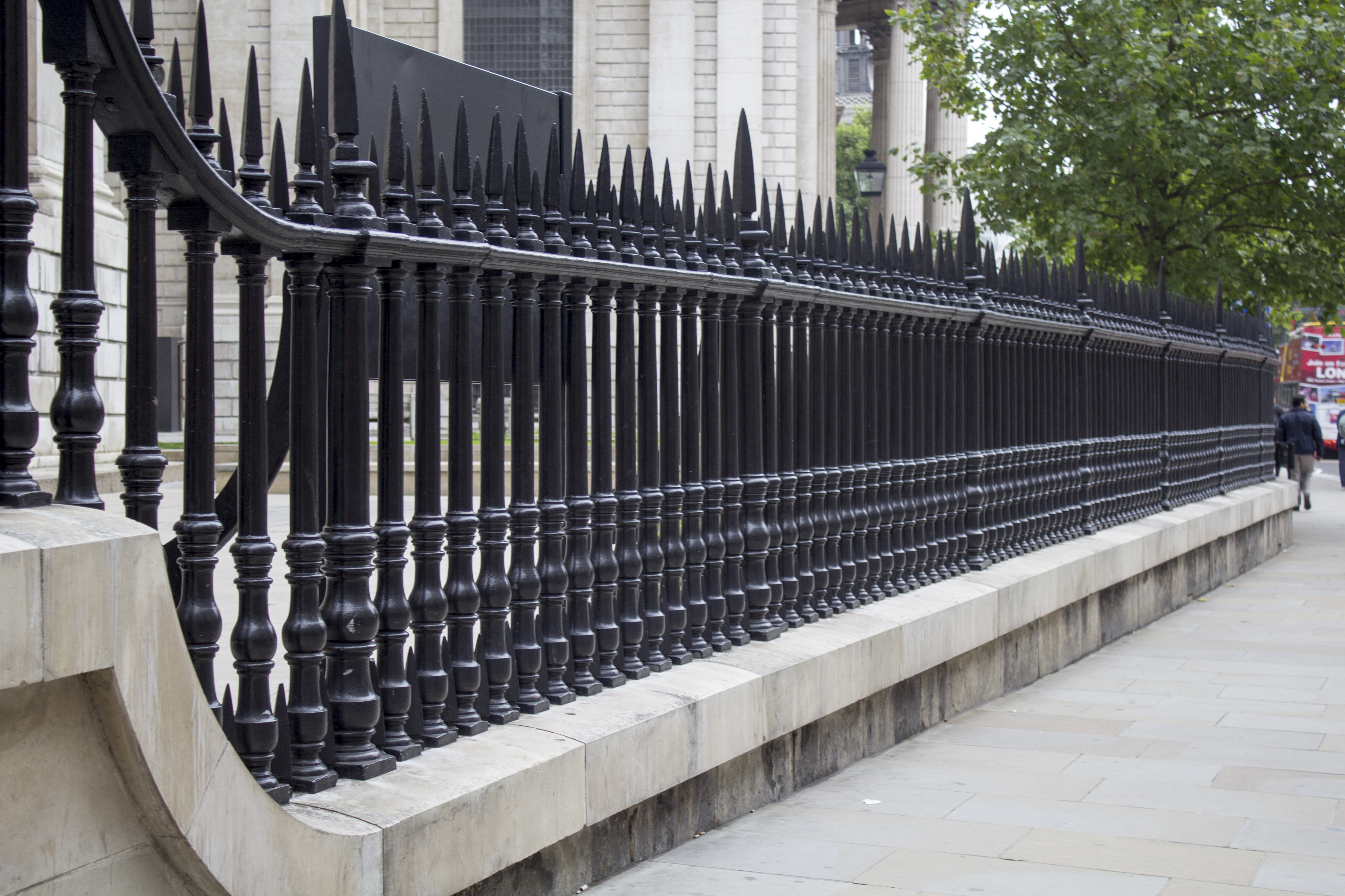 Railings to Churchyard of Cathedral Church of St Paul